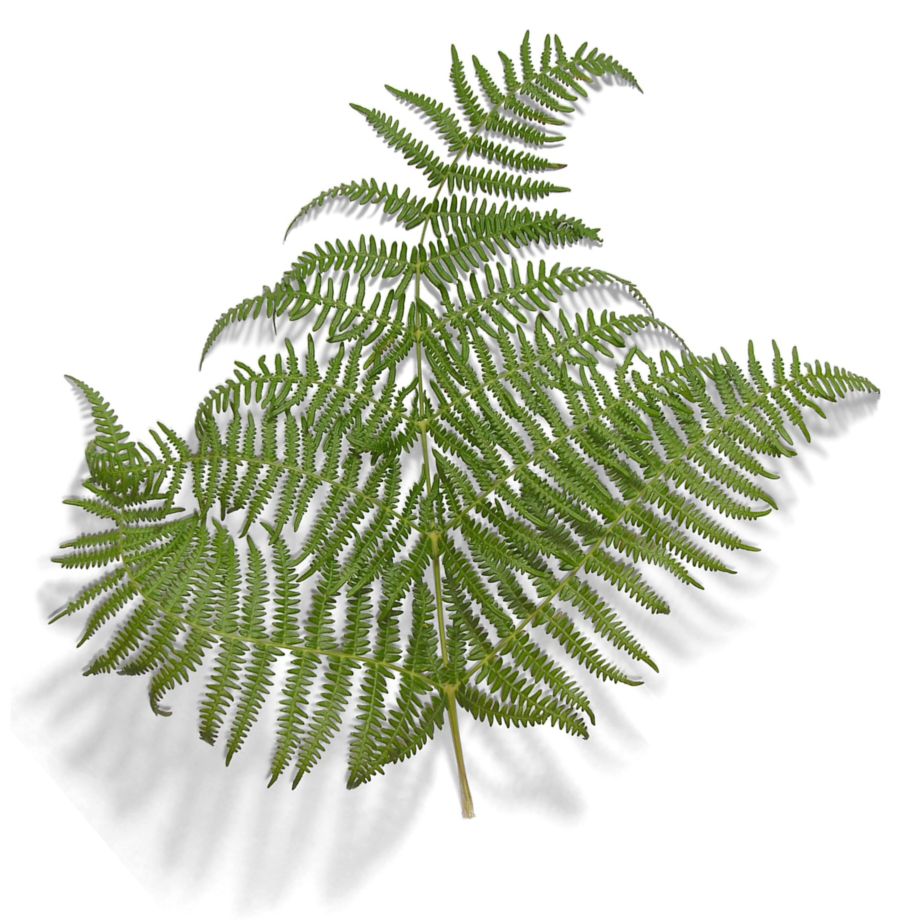 Bracken frond